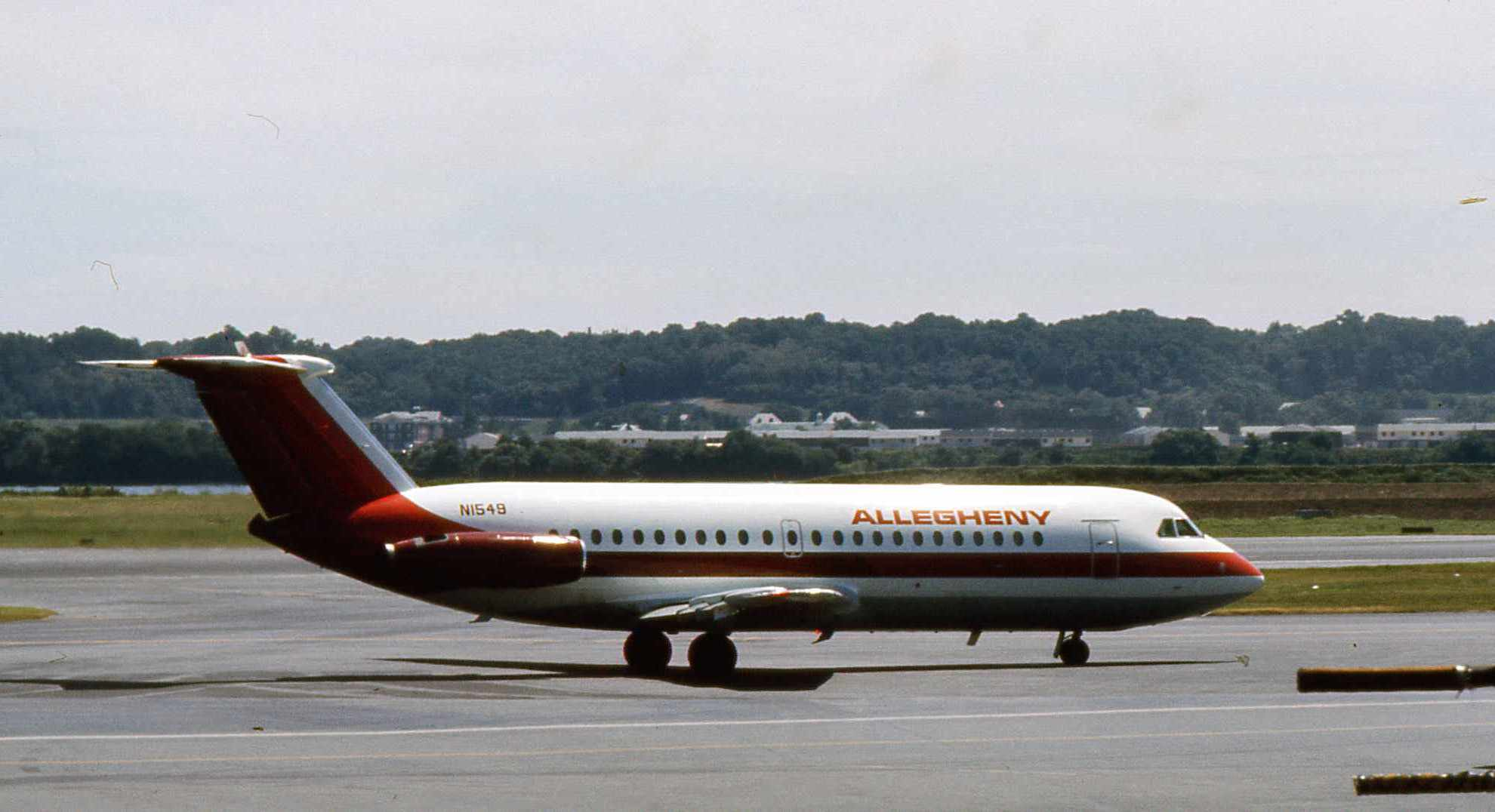 Allegheny Airlines BAC 1-11 203AE, c/n 43. Delivered to Braniff on September 29, 1965. Sold to Allegheny Airlines. Here is with the new livery in mid 1975.